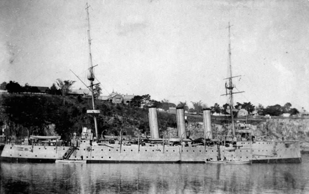 Unidentified Challenger-class cruiser moored in the Brisbane River alongside the Naval Stores, Kangaroo Point, Brisbane.